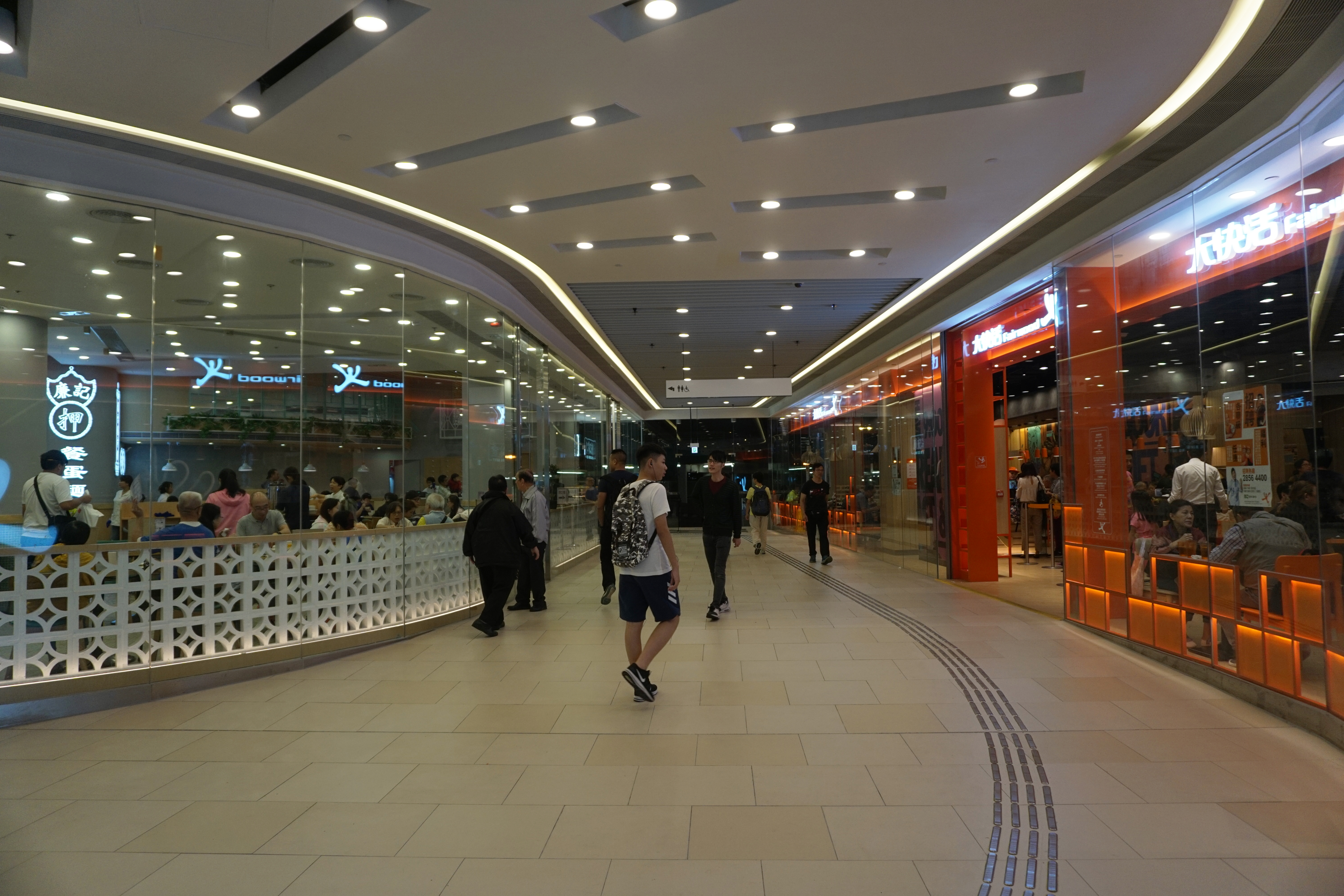 Wan Tsui Shopping Centre in Chai Wan, Hong Kong.